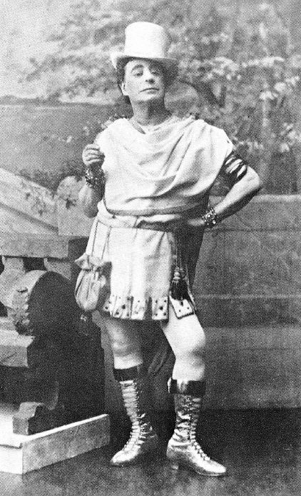 1884 photograph of Toole in the the title role of F. C. Burnand's burlesque Paw Claudian